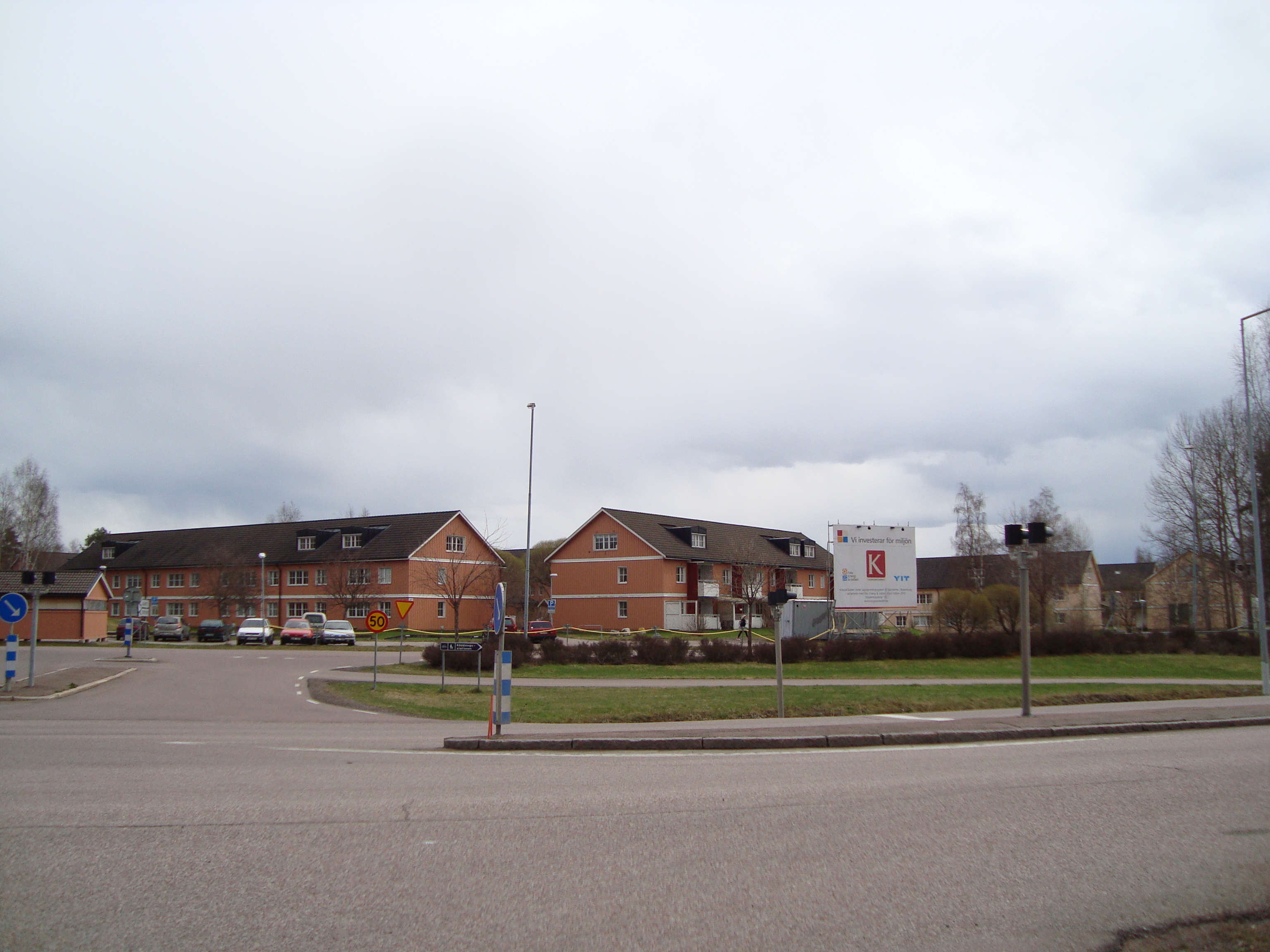 Bojsenburg, Falun, Sweden